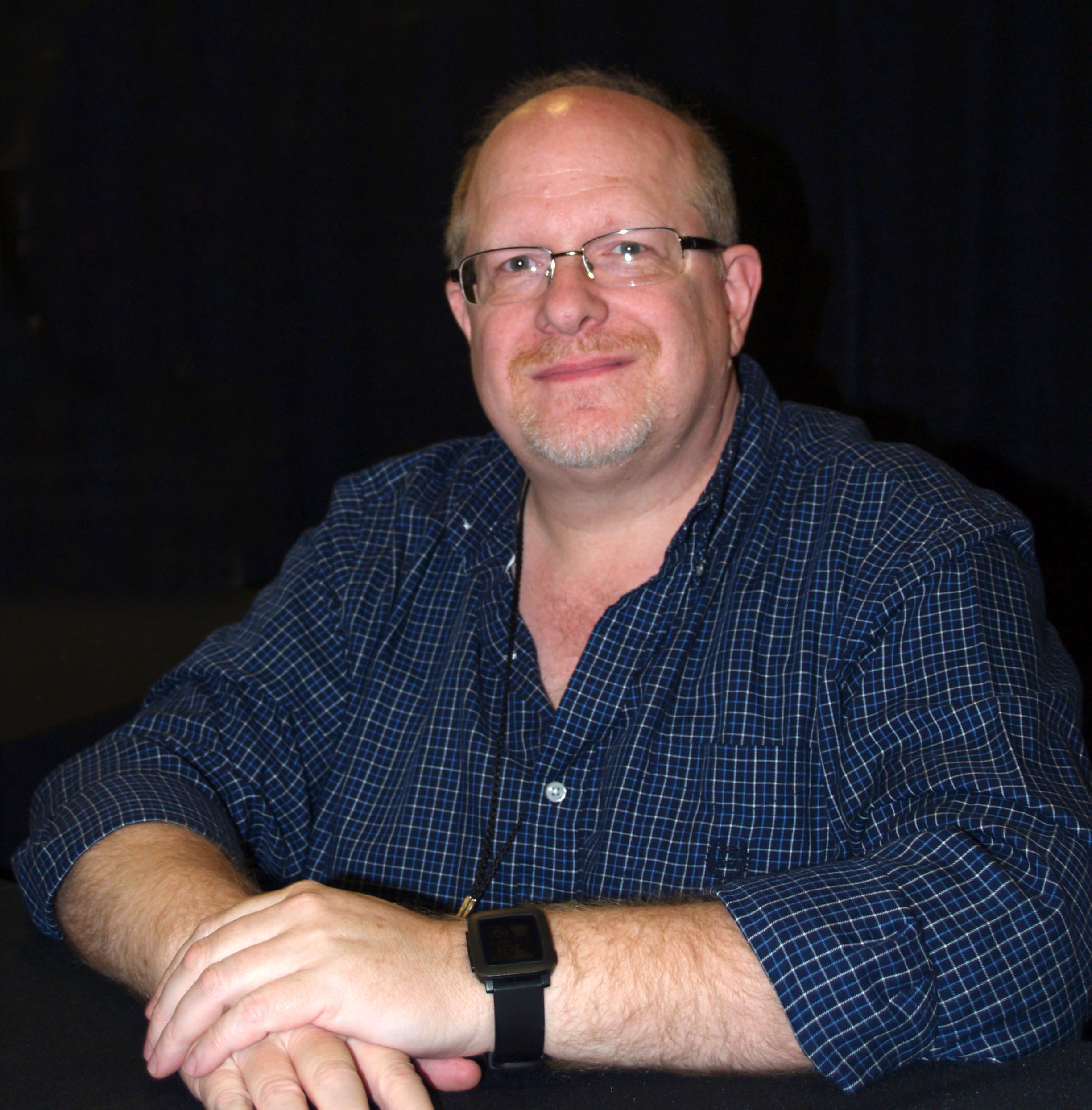 Comics writer Mark Waid at the Meadowlands Exposition Center in Secaucus, New Jersey on April 16, 2016, Day 1 of the 2016 East Coast Comicon. This photo was created by Luigi Novi. It is not in the public domain, and use of this file outside of the licensing terms is a copyright violation.